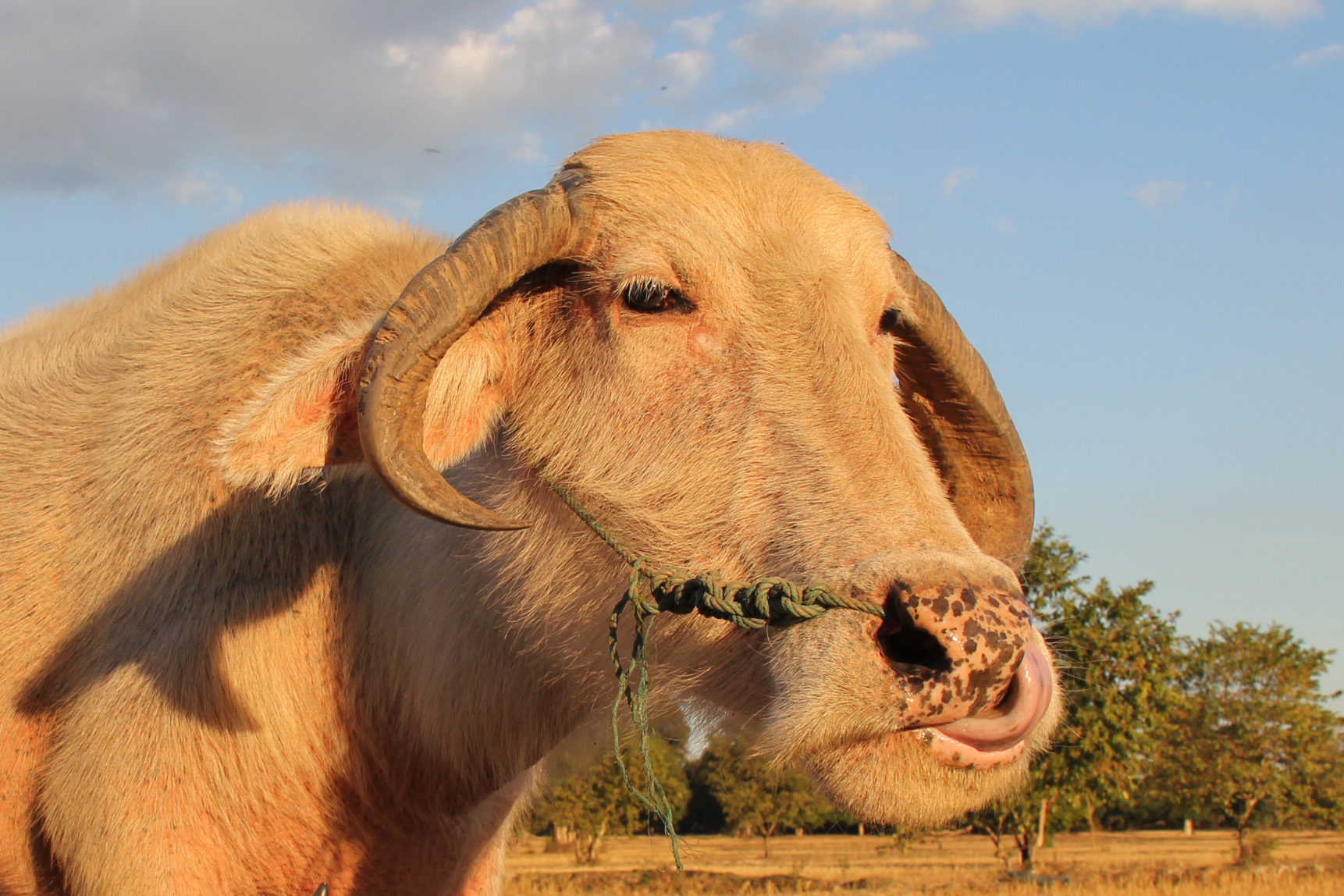 Head of cattle with tongue out in the fields of Don Det in Laos at sunset